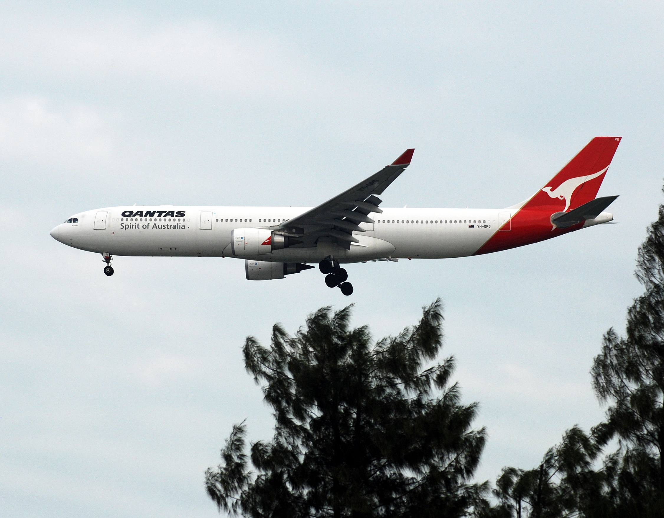 Qantas Airbus A330-300 (VH-QPG) landing on 02L at Singapore Changi Airport (SIN/WSSS).